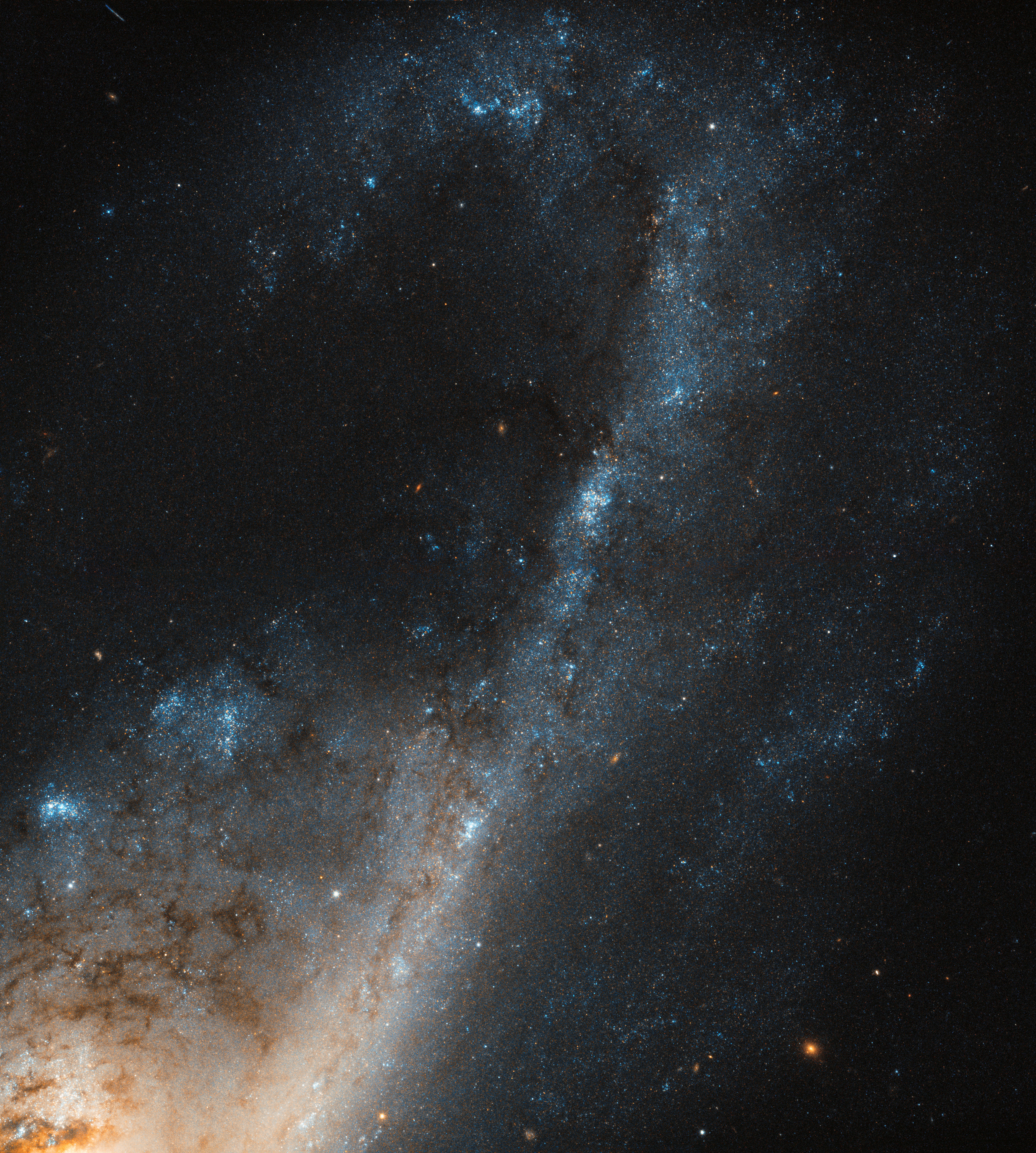 Despite all efforts galaxy formation and evolution are still far from being fully understood. Fortunately, the conditions we see within certain galaxies — such as so-called starburst galaxies — can tell us a lot about how they have evolved over time. Starburst galaxies contain a region (or many regions) where stars are forming at such a breakneck rate that the galaxy is eating up its gas supply faster than it can be replenished! NGC 4536 is such a galaxy, captured here in beautiful detail by the Hubble’s Wide Field Camera 3 (WFC3). Located roughly 50 million light-years away in the constellation of Virgo (The Virgin), it is a hub of extreme star formation. There are several different factors that can lead to such an ideal environment in which stars can form at such a rapid rate. Crucially, there has to be a sufficiently massive supply of gas. This might be acquired in a number of ways — for example by passing very close to another galaxy, in a full-blown galactic collision, or as a result of some event that forces lots of gas into a relatively small space. Star formation leaves a few tell-tale fingerprints, so astronomers can tell where stars have been born. We know that starburst regions are rich in gas. Young stars in these extreme environments often live fast and die young, burning extremely hot and exhausting their gas supplies fairly quickly. These stars also emit huge amounts of intense ultraviolet light, which blasts the electrons off any atoms of hydrogen lurking nearby (a process called ionisation), leaving behind clouds of ionised hydrogen (known in astronomer-speak as HII regions).